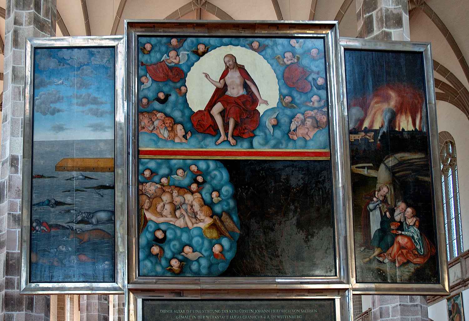 This image shows the back side of the altar piece in the church "St. Wolfgangskirche" in Schneeberg (Saxony, Germany).